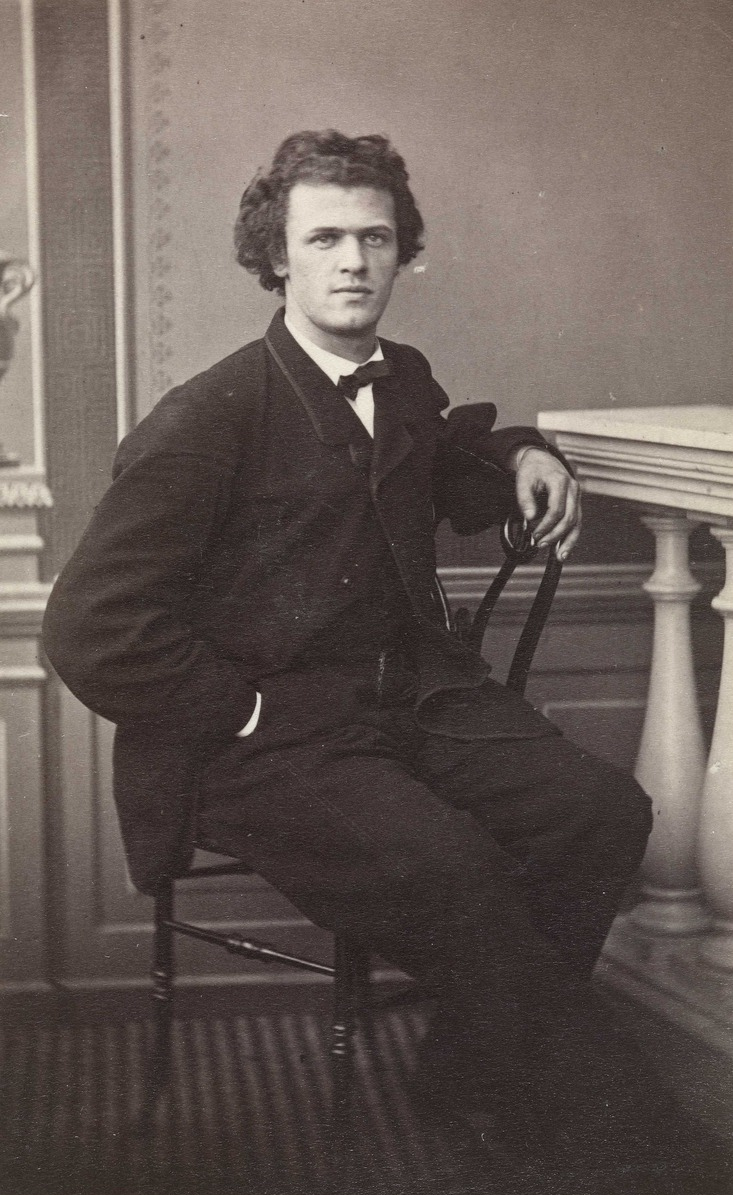 Norwegian pharmacist Carl Johan Maximilian von Munthe af Morgenstierne (1844–1912) from Oslo, of the Munthe af Morgenstierne family